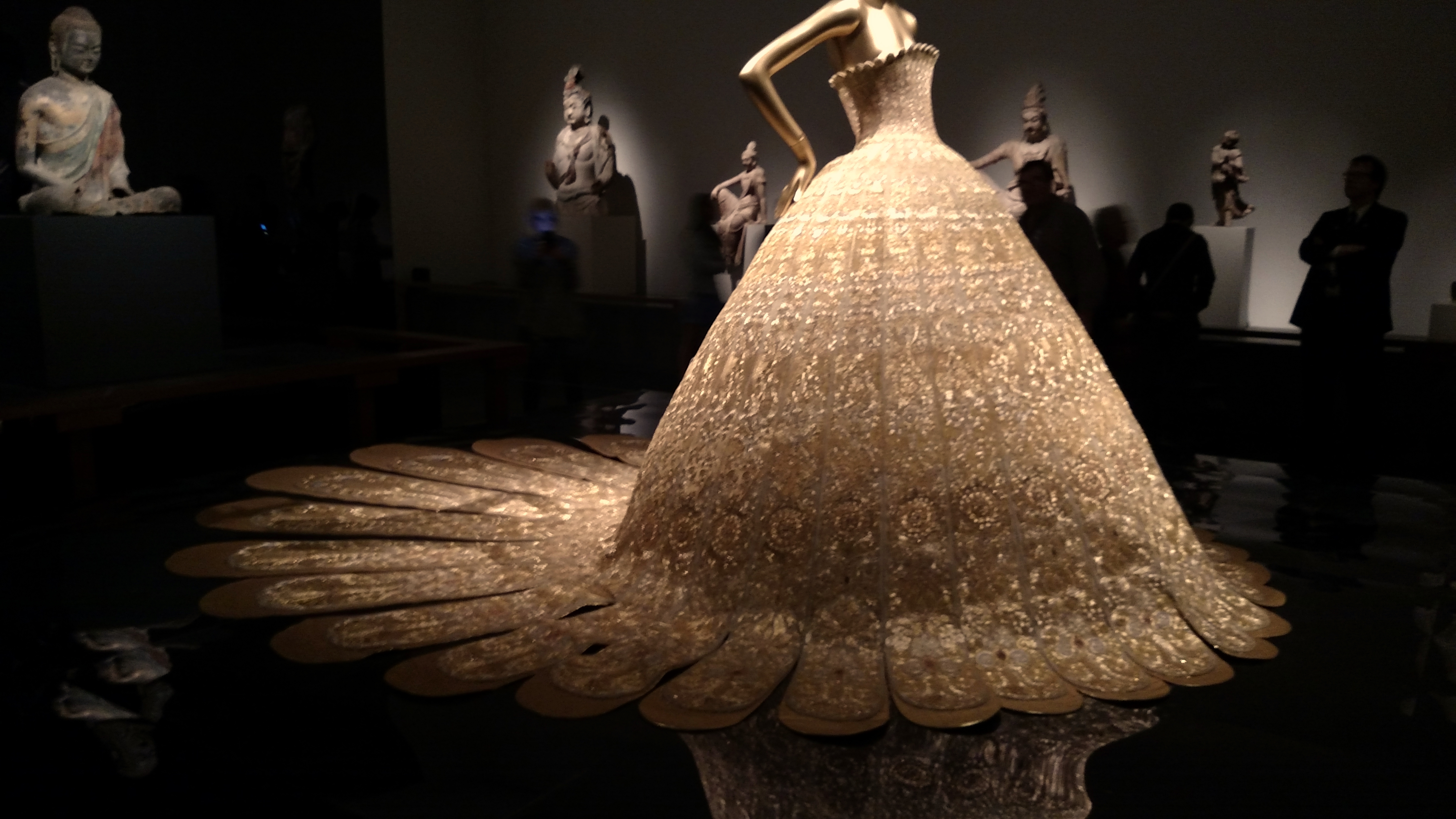 Design by Chinese designer Guo Pei, shown in the "China: Through the Looking Glass" exhibition, the Metropolitan Museum of Art, New York City